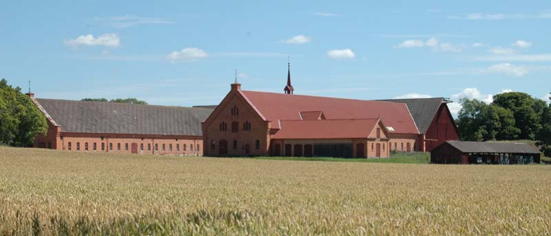 Stables and barn of Bjärka-Säby, Östergötland, Sweden